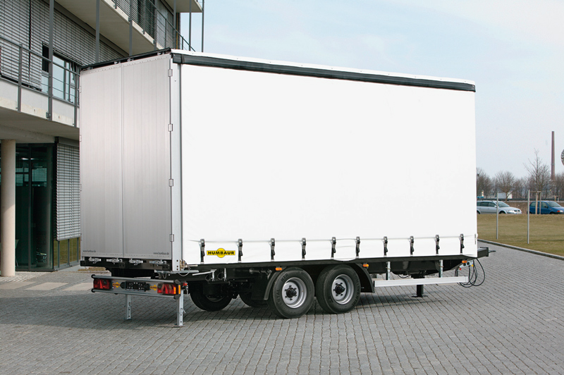 Humbaur Tandem Trailer